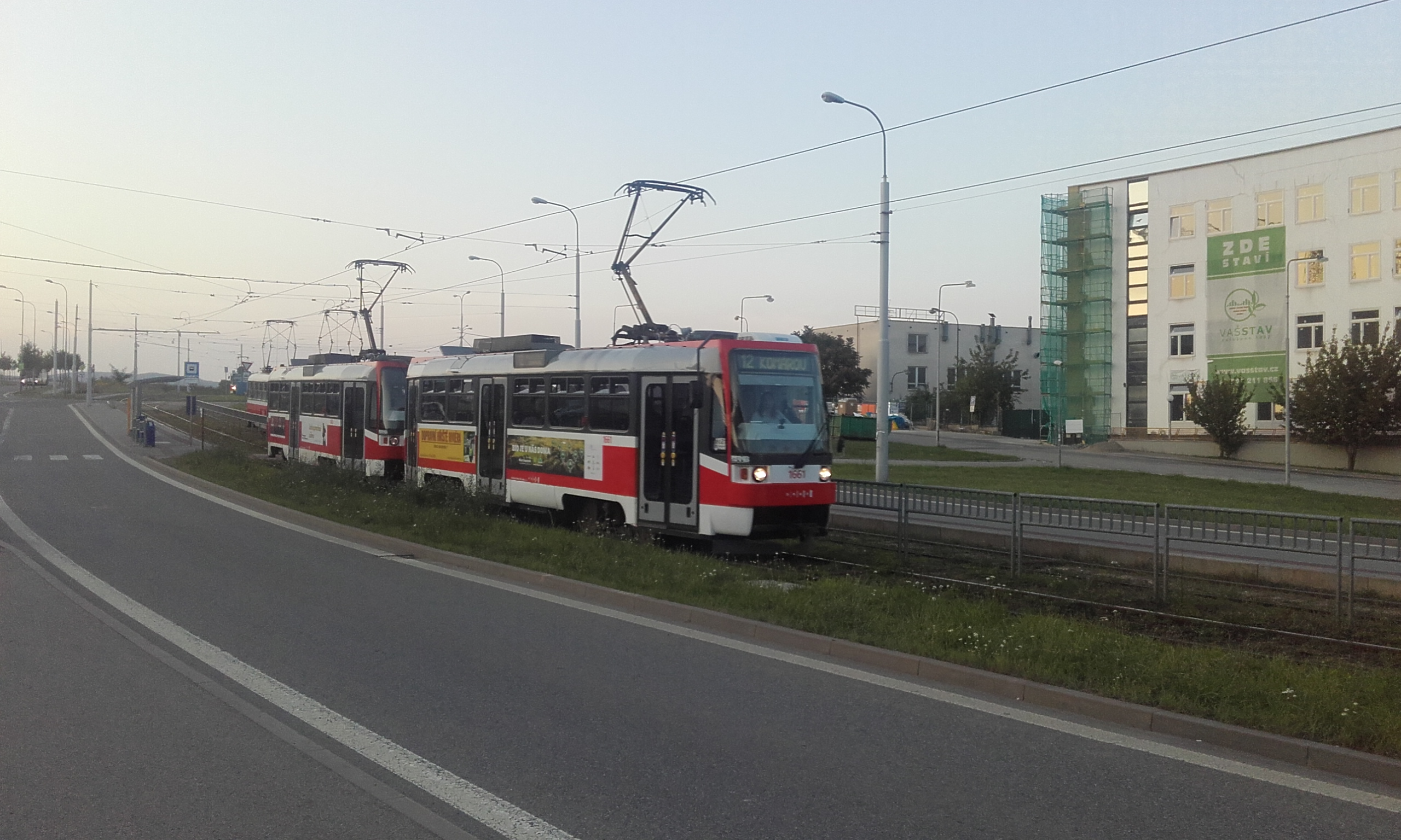 One of the tram lines in Brno.